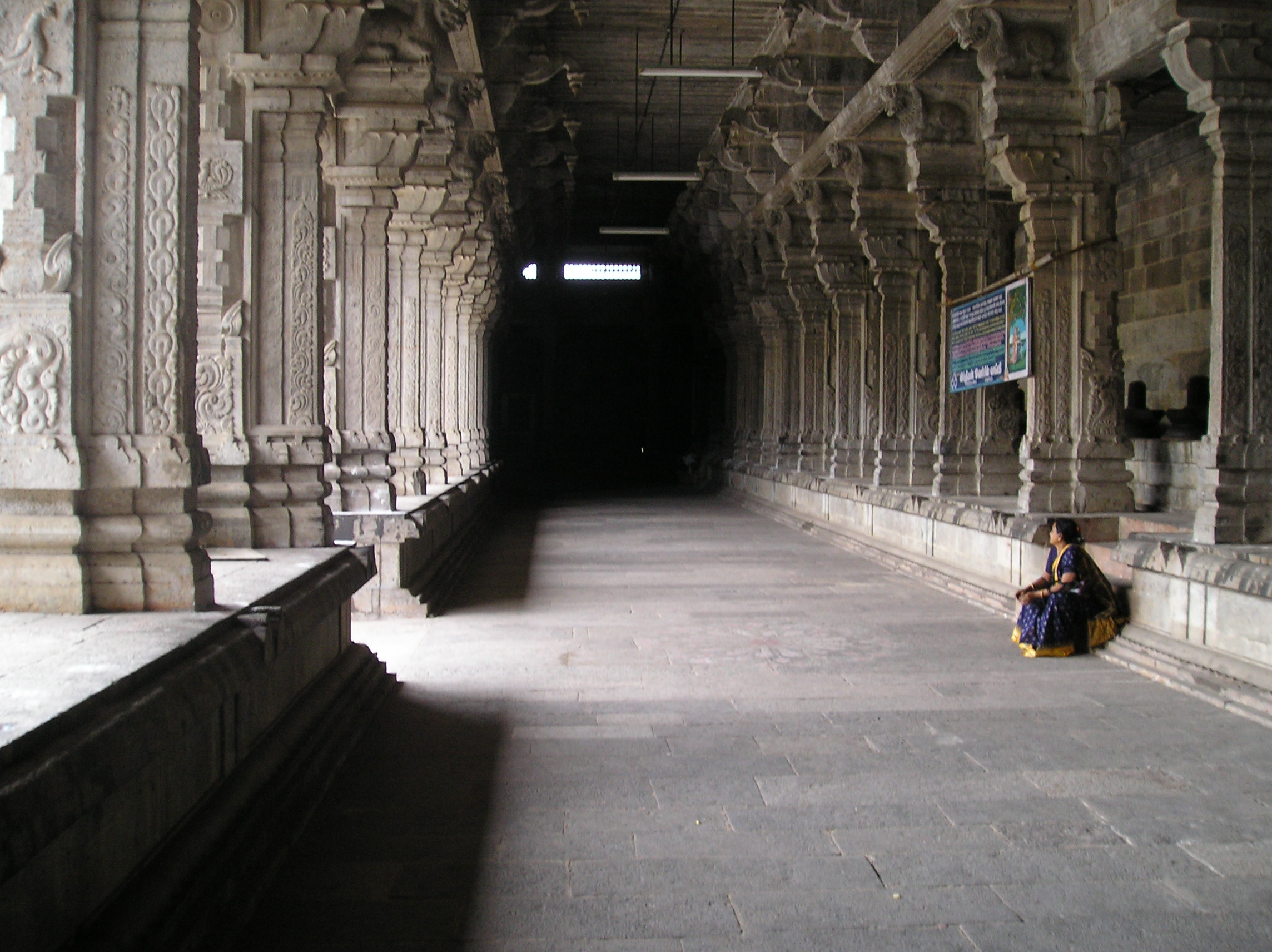 Kanchi temple